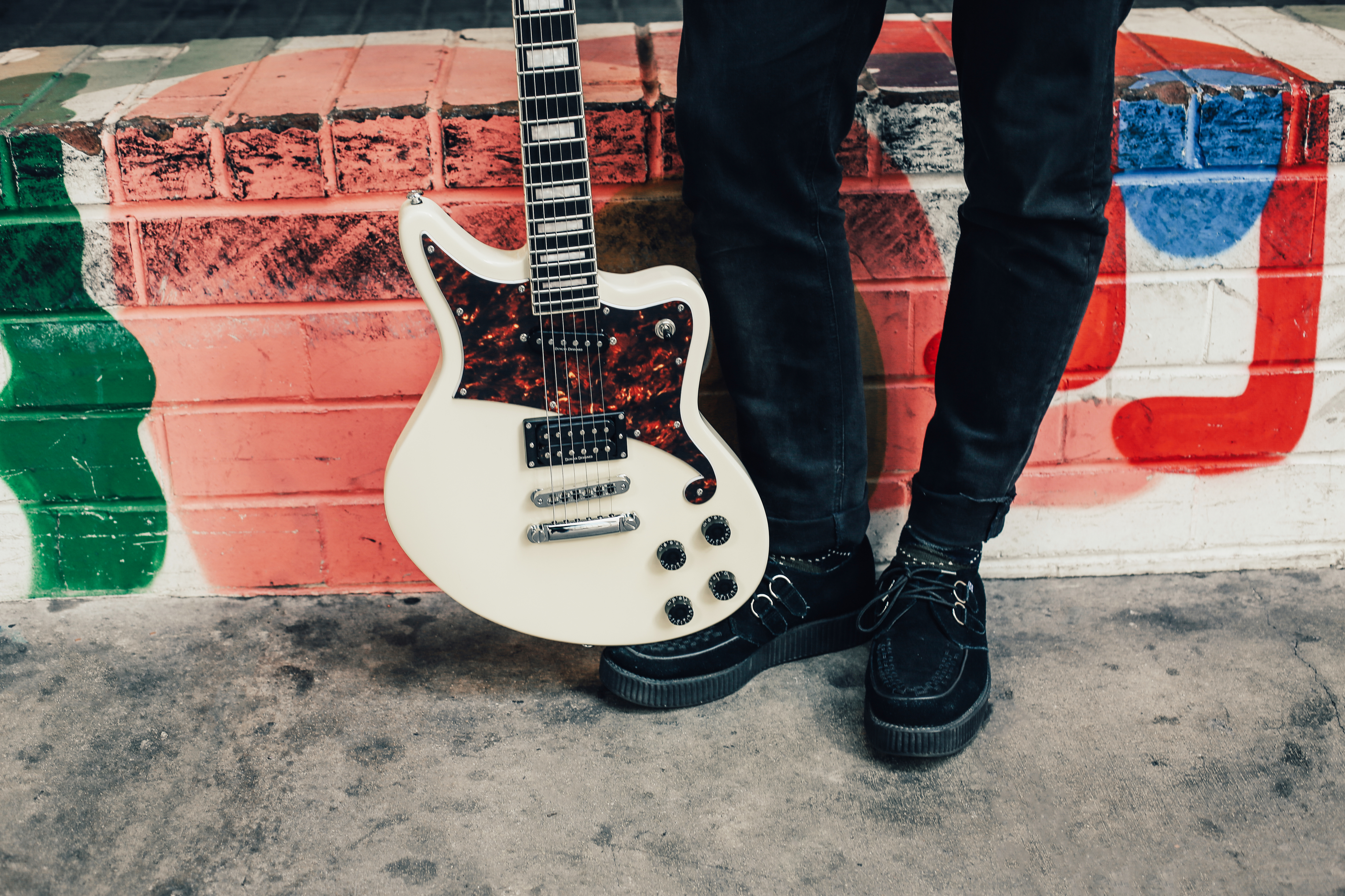 D'Angelico Solid bodies Bedford